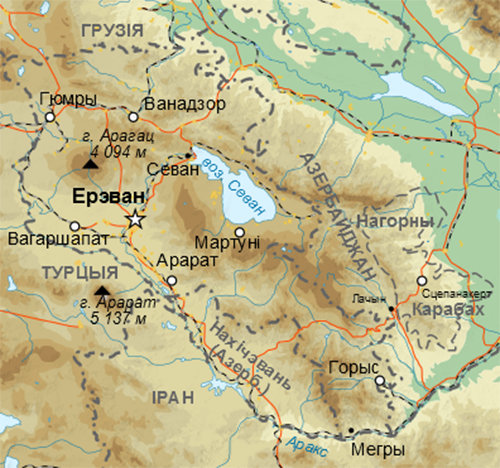 Map of Armenia in Belarusian